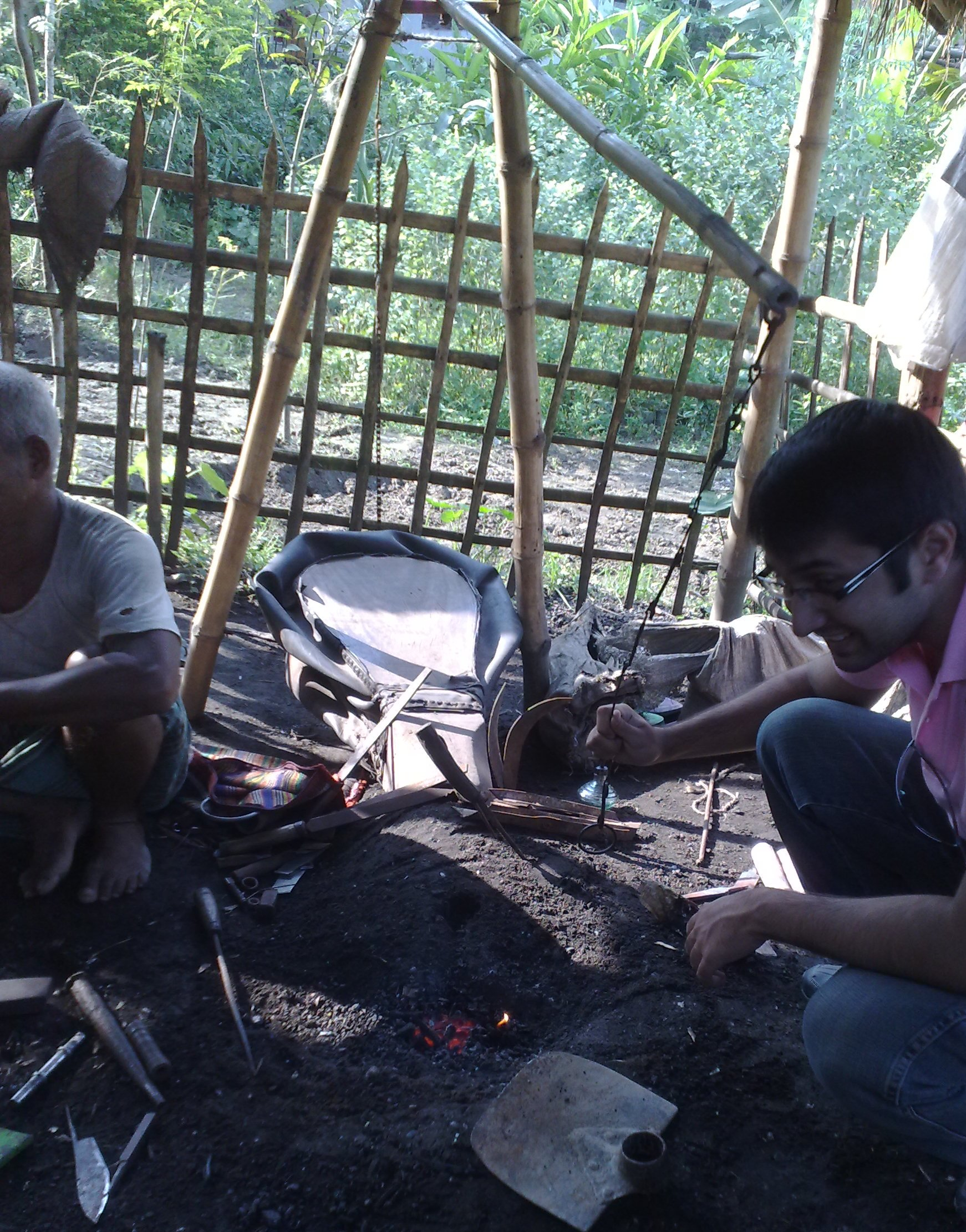 Image of "Hapor" an instrument used by sub-continental blacksmiths